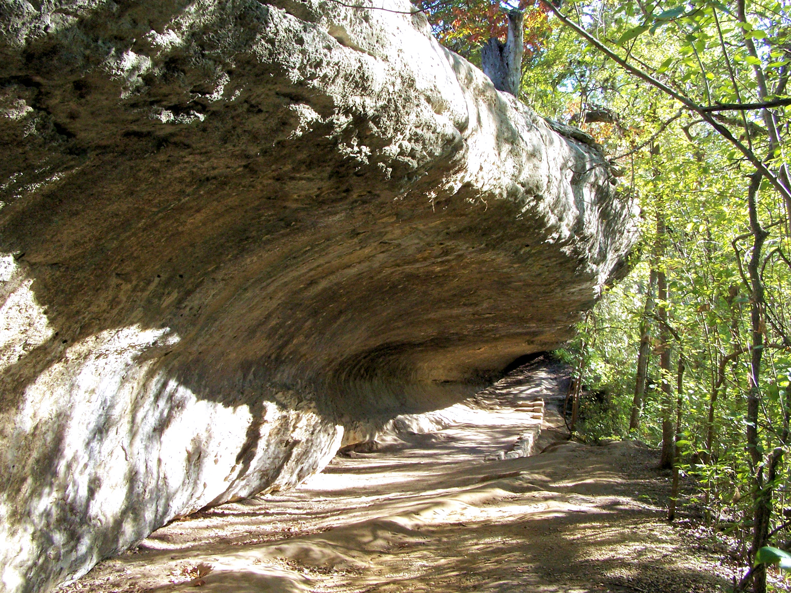 The Smith Rock Shelter located in McKinney Falls State Park, Texas, United States. The site was listed on the National Register of Historic Places on October 1, 1974.